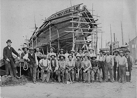 A group of shipwrights at the Mather Shipyard in Port Jefferson, New York, 1884